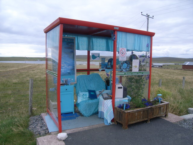 The bus shelter with everything within, near to Baltasound, Shetland Islands, Great Britain. This was a fantastic thing to see. A cared for bus stop, with a blue theme and even a visitors book. In England some jobsworth would have tried to fine the person responsible. Well done Shetland!